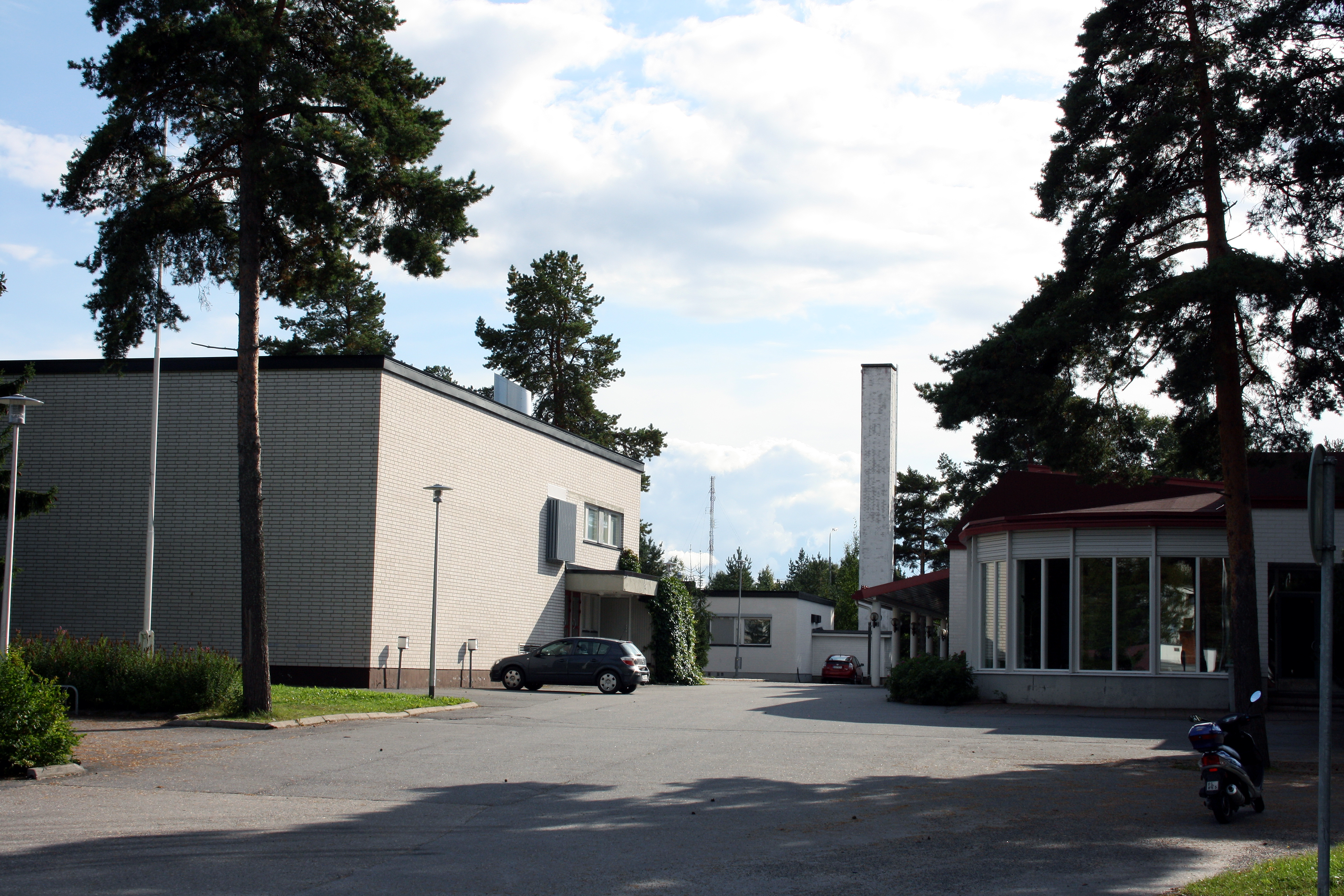 Kiviniitty school in Kokkola, Finland.